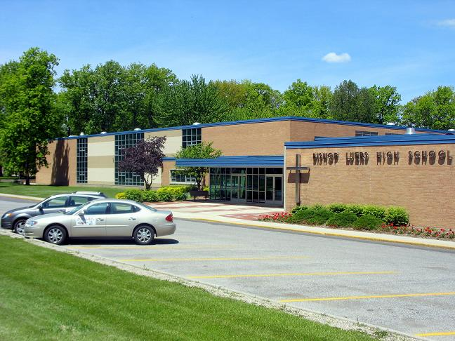 Bishop Luers High School, Fort Wayne, Indiana.